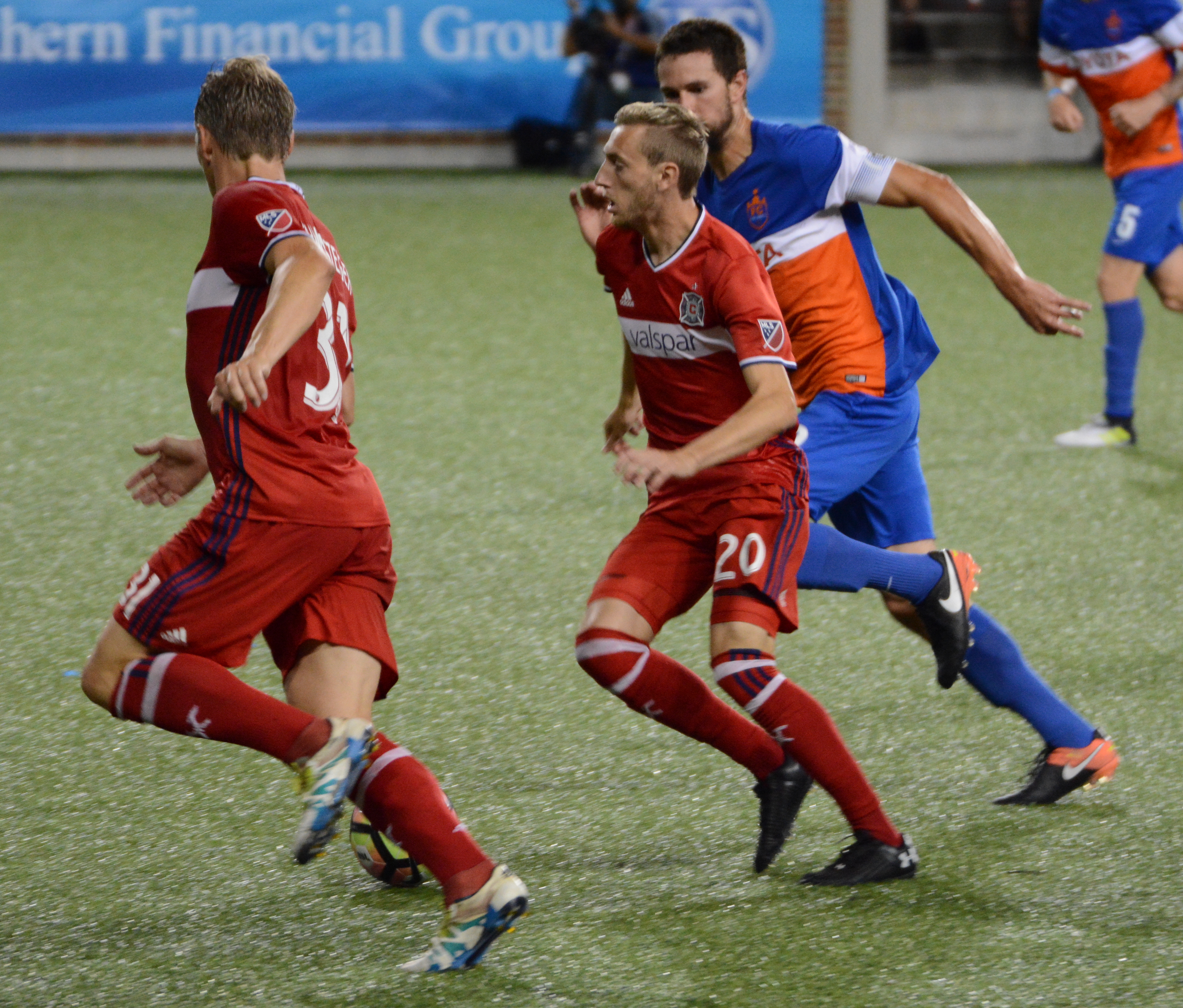 Taken at a U.S. Open Cup match between FC Cincinnati and Chicago Fire SC at Nippert Stadium in Cincinnati, Ohio on June 28, 2017.